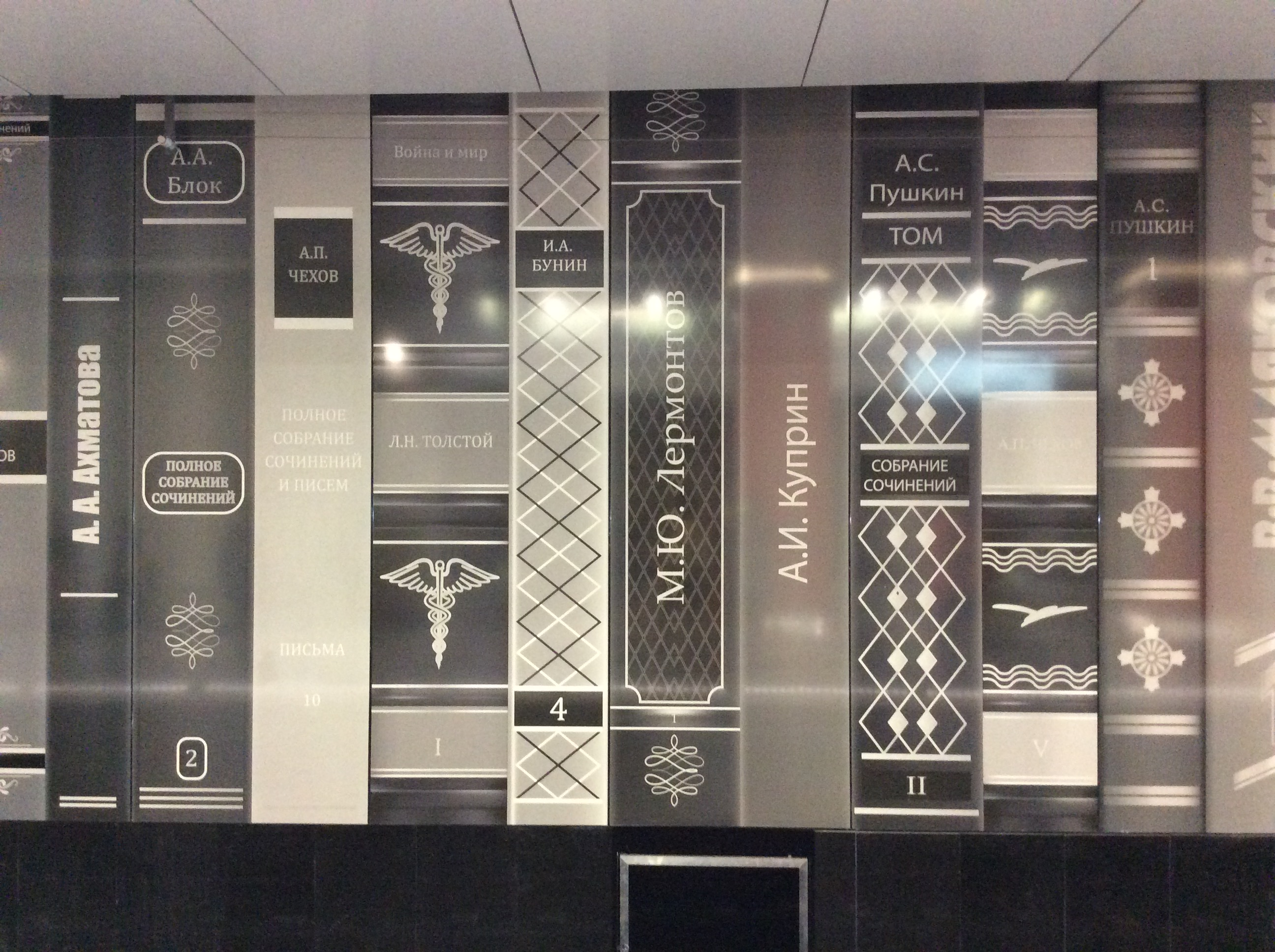 Rasskazovka (Moscow Metro), the opening day.